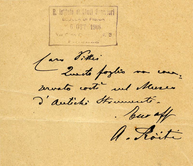 Note written by Antonio Roiti to Costantino Pittei (October 1906)